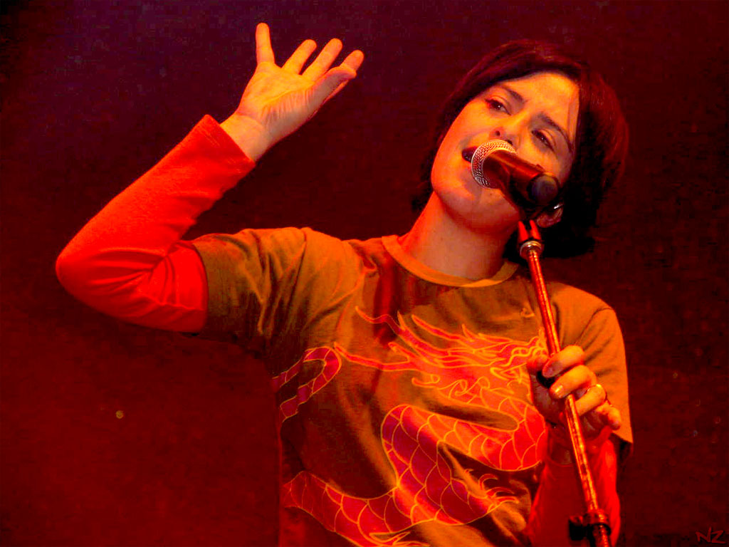 Fernanda Takai, lead singer of Pato Fu.